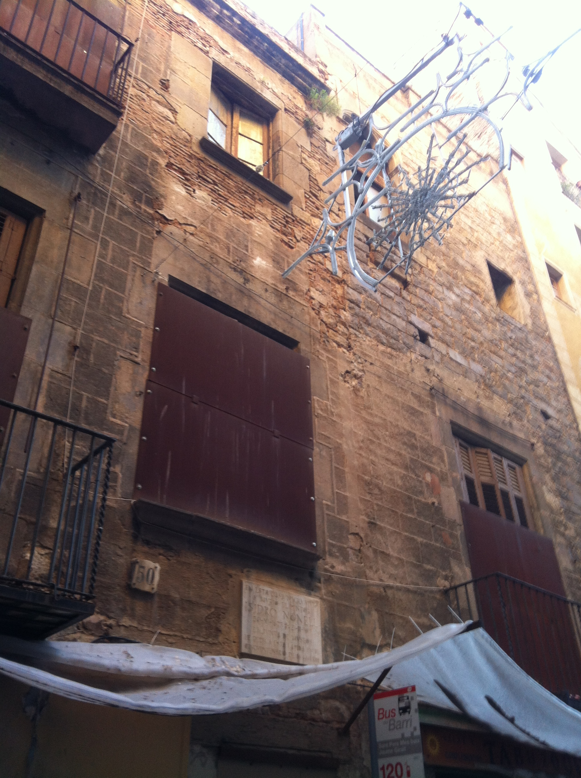 Birthplace house of Isidre Nonell, carrer Sant Pere Més Baix